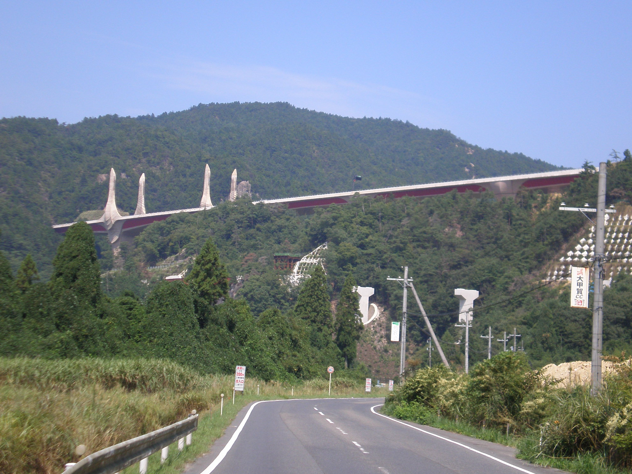 Scenery of Shiga Prefecture OtsuShigaraki line